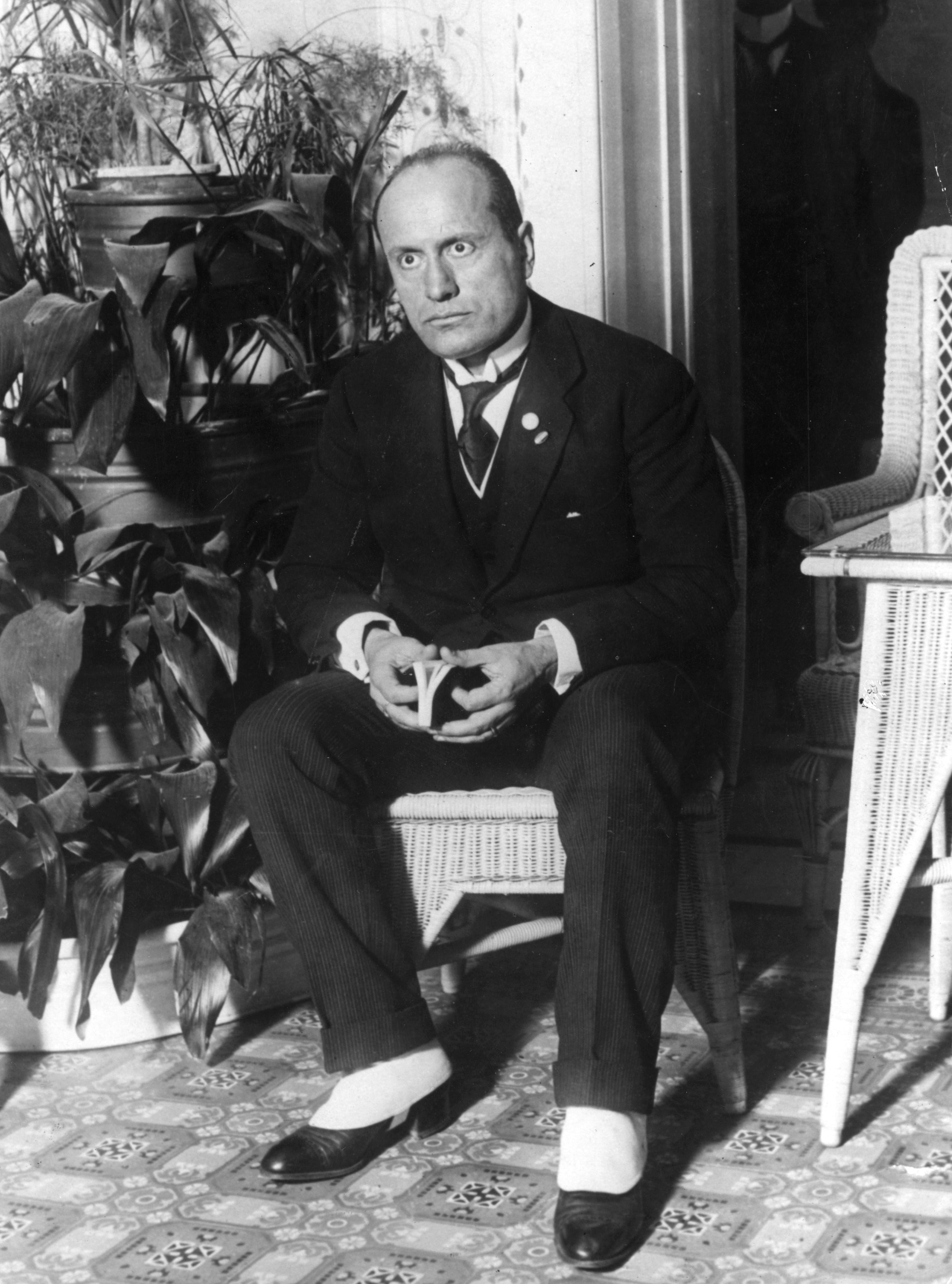 November 1922: Italian fascist dictator Benito Mussolini (1883 - 1945). (Photo by Topical Press Agency/Getty Images)